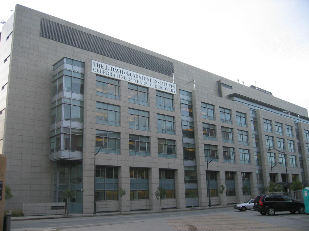 Taken by User:Jiang in San Francisco, CA, USA on January 11, 2006.